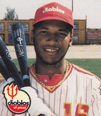 Professional baseball player Gary Sheffield